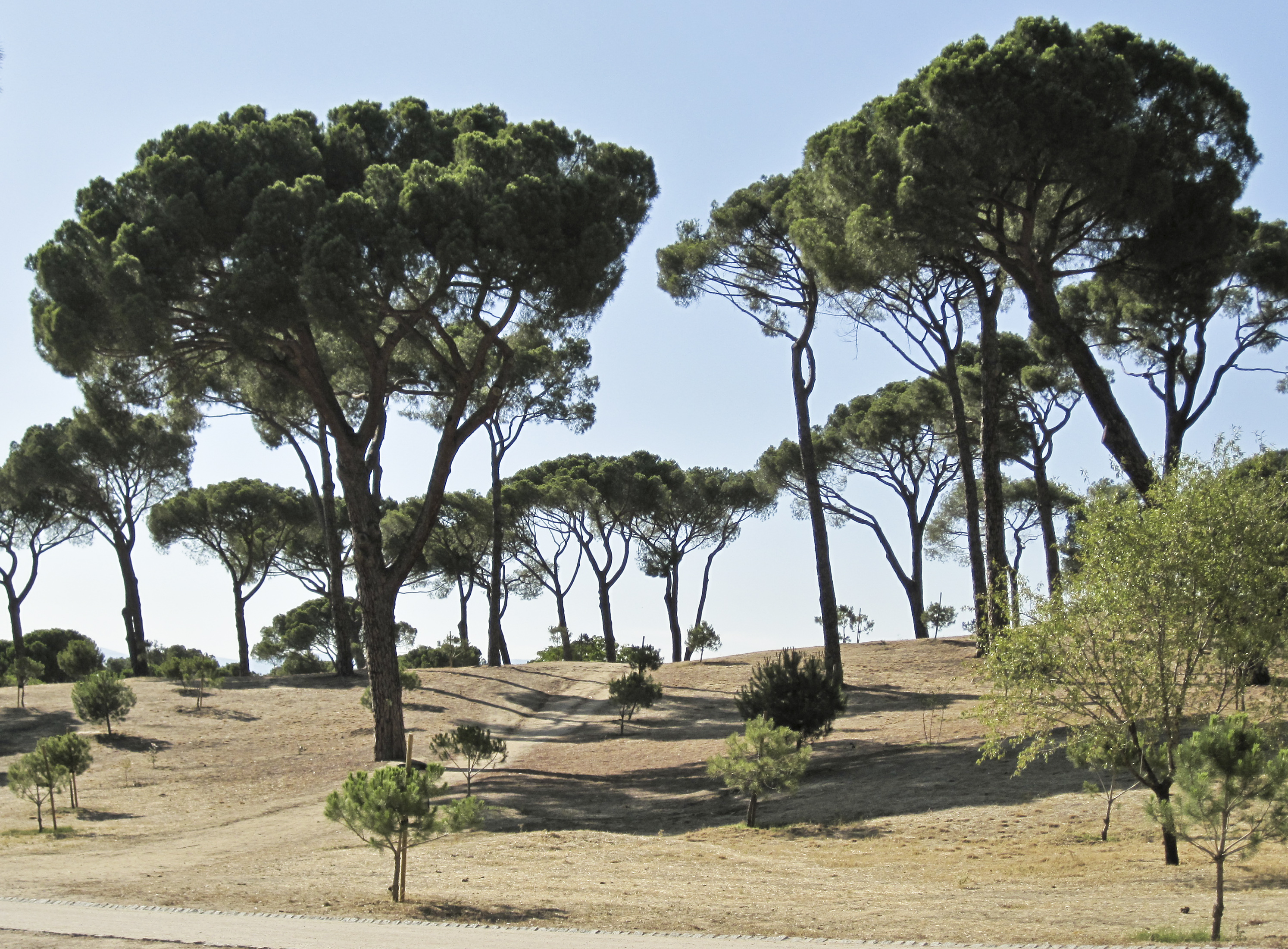 Parque Dehesa de la Villa, Madrid. Spain